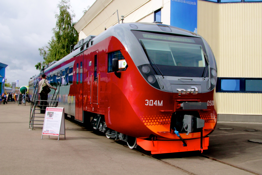 Electric multiple units ED4, Expo 1520 exibition (Выставка Экспо 1520) Moscow, Scherbinka (Москва, Щербинка)